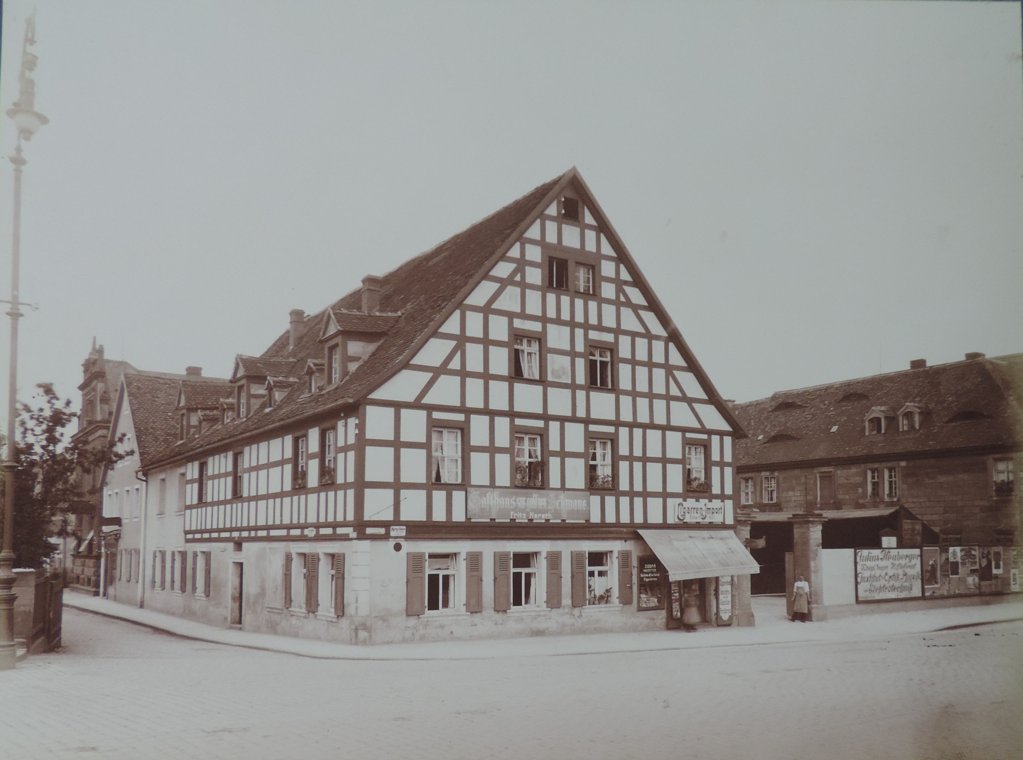 Views and photos of Bayreuth, Germany, gifted to Ferdinand I of Bulgaria to commemorate his 25-year rule. Inn from 1618.